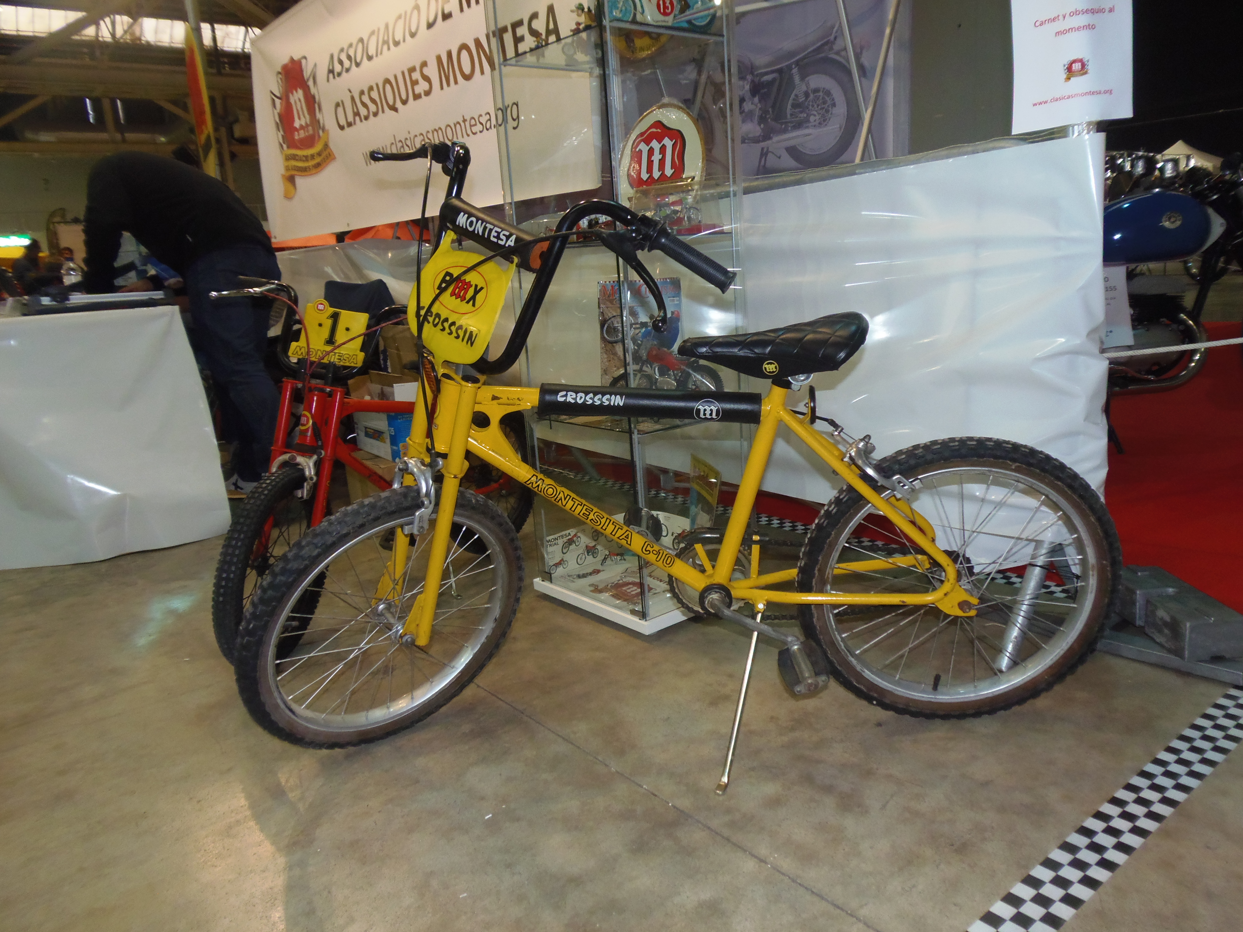 Montesita C-10 "Crossin", 1979